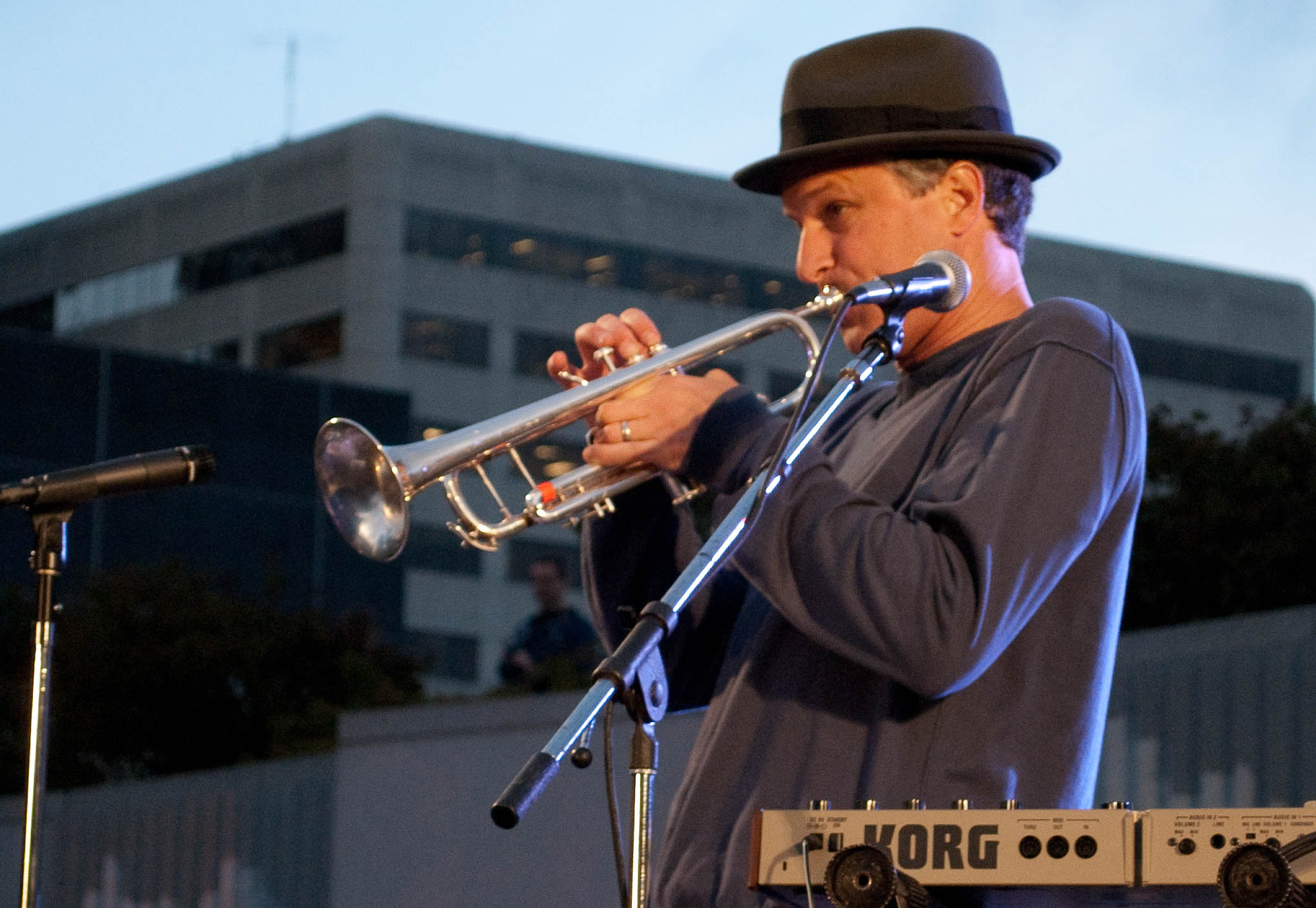 Vince DiFiore performing with Cake at the Worldwide Developers Conference 2009, San Francisco